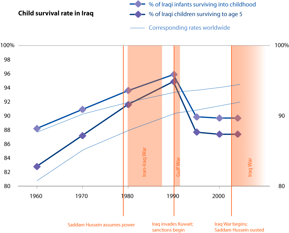 Iraqi infant and child mortality over time, expressed as a percentage survival rate. Data from Unicef. Also available as an svg file